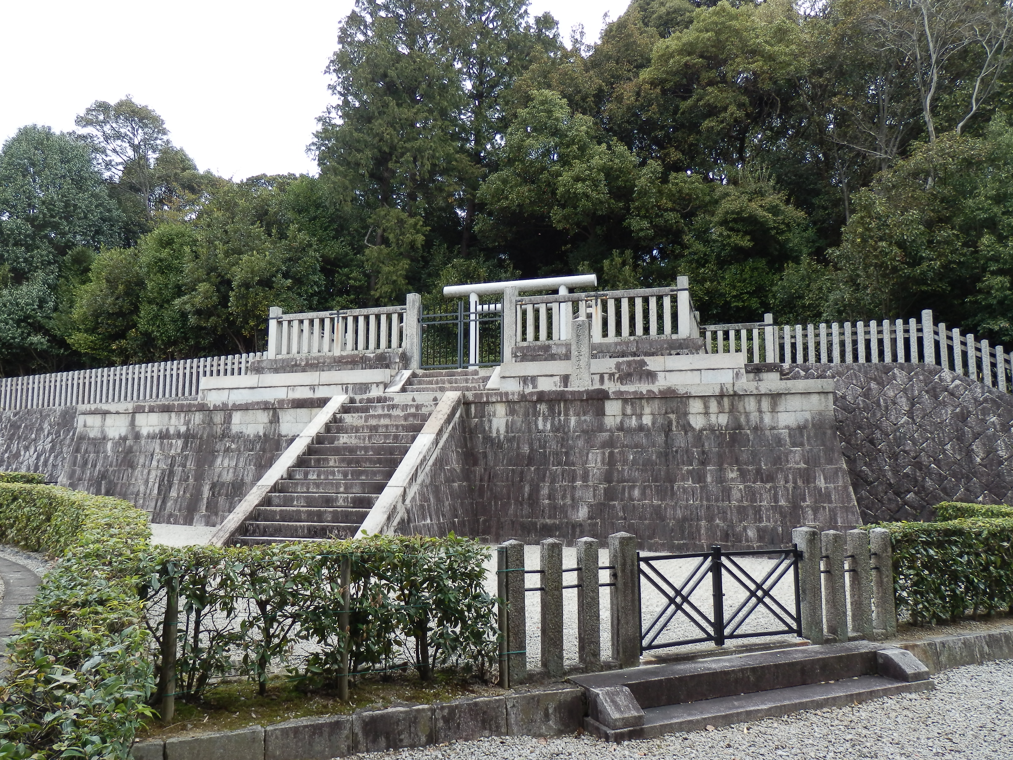 The Mausoleum of Emperor Kōan, in Gose, Nara Prefecture, Japan